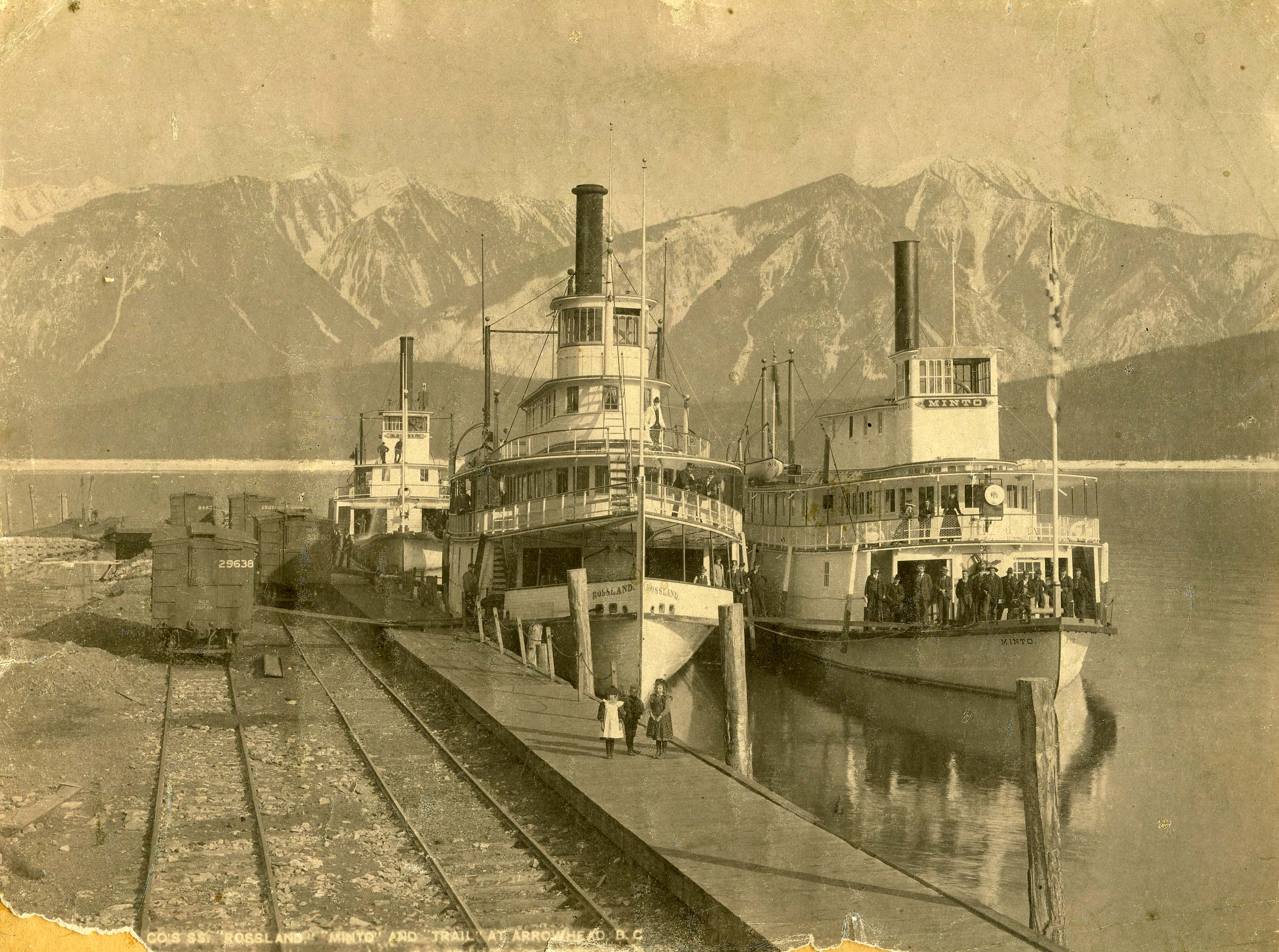 Sternwheelers Rossland (centre), Minto (right), and Trail (left), at Arrowhead, British Columbia.